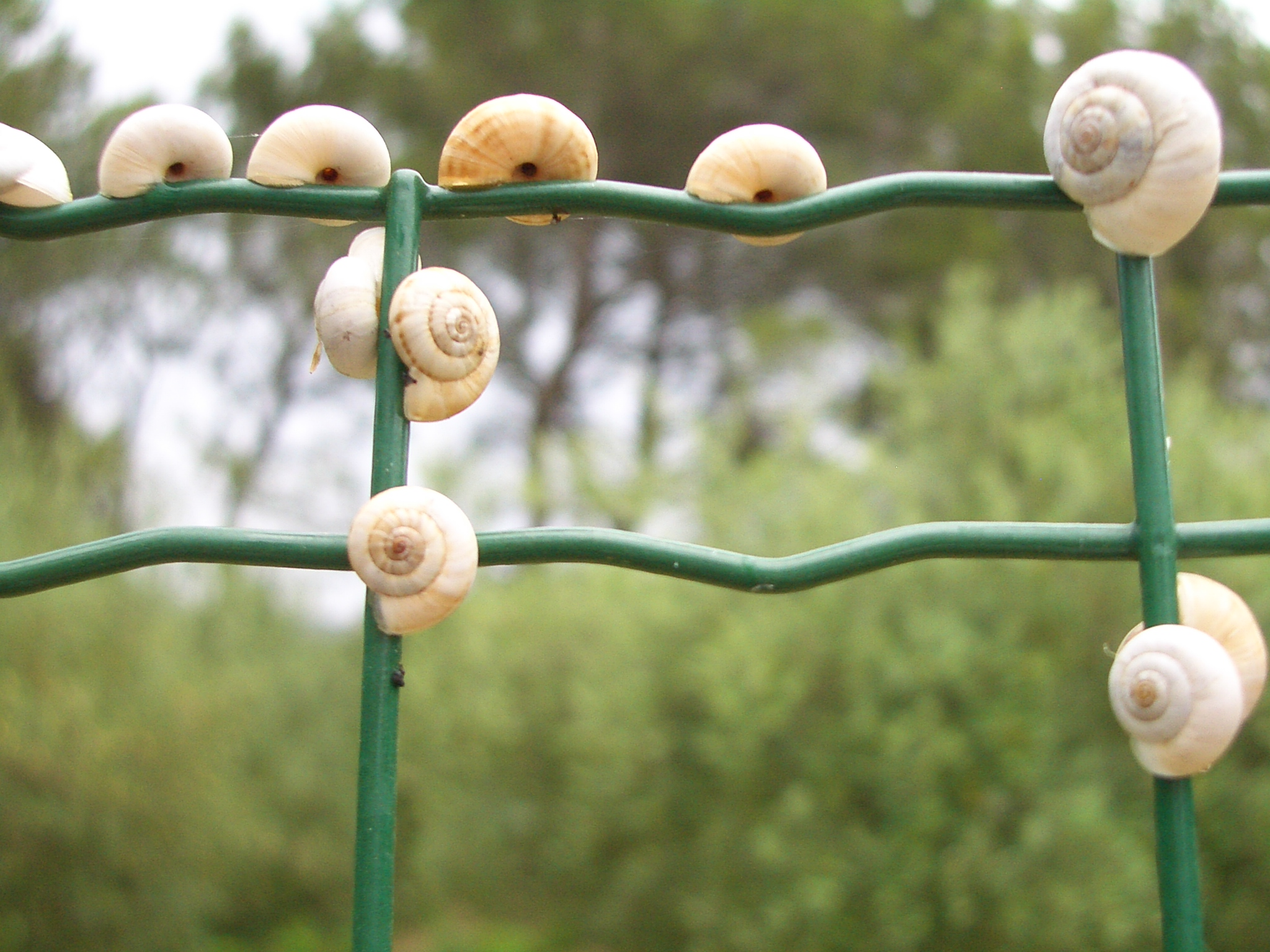 Small white French snails, Cernuella virgata have climbed a fence en masse, near Saint-Rémy-de-Provence. They will stay there while they aestivate. The picture is taken in a nature area south of the city, not far from the Roman ruins at Glanum